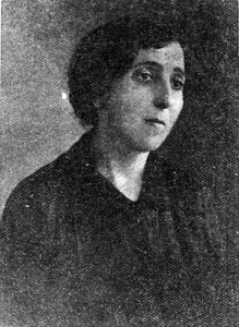 Katina Grizopoulou Pasila